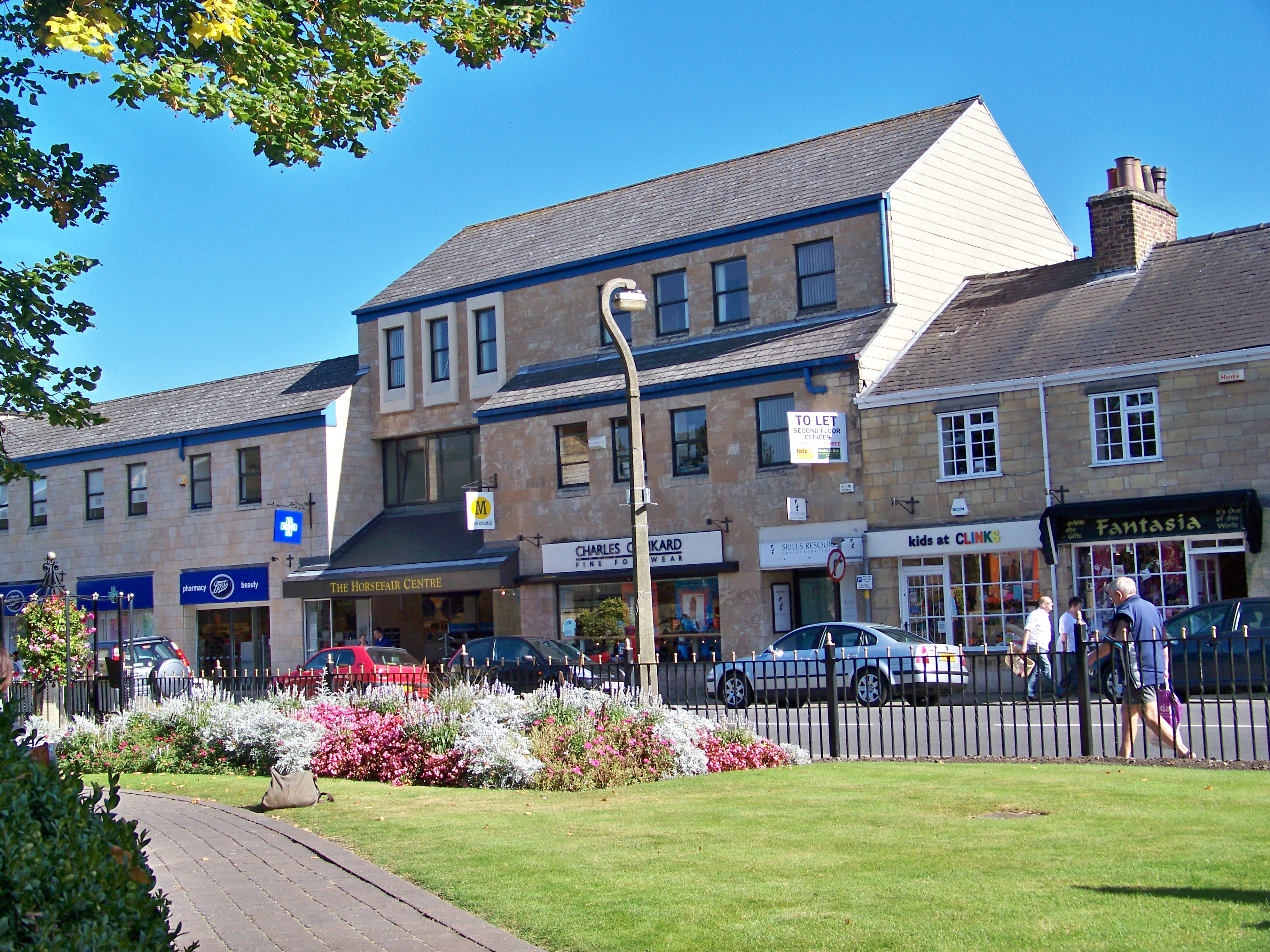 The exterior of the Horsefair Centre in Wetherby, taken from the Garden of Rest on North Street. Taken on the afternoon of Saturday 26th September 2009.